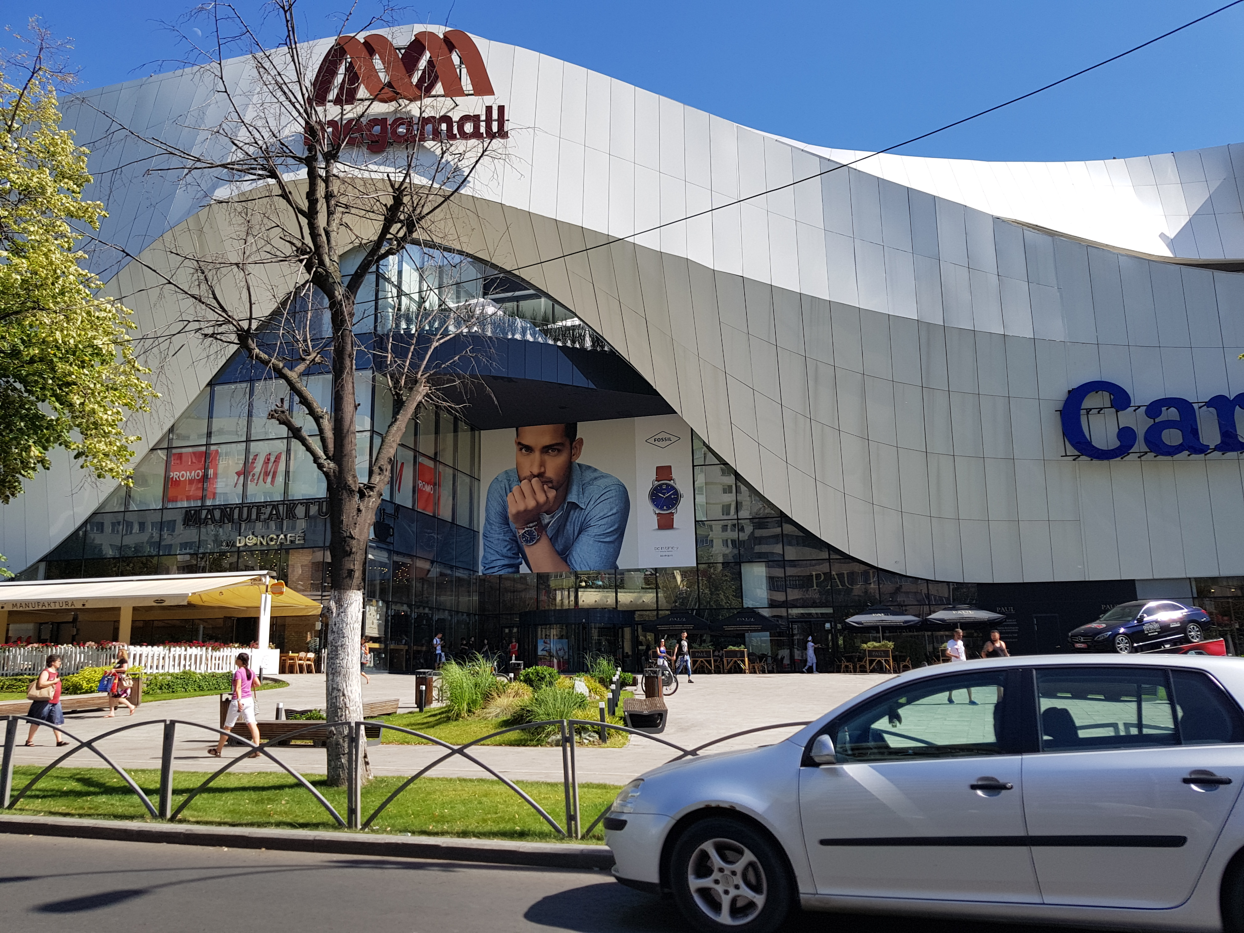 Bucharest Mega Mall, Pantelimon, 2017